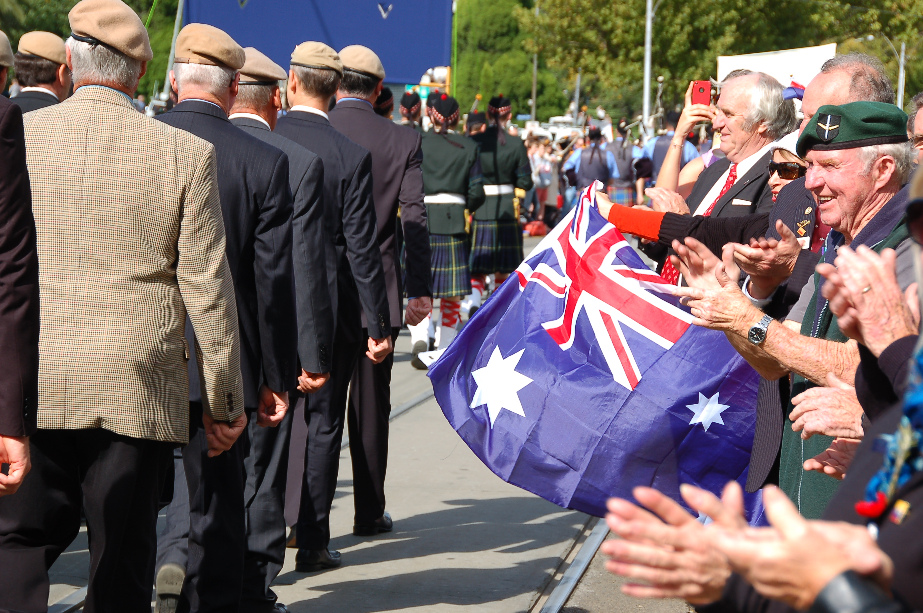 ANZAC Day Parade 2013 in Melbourne.